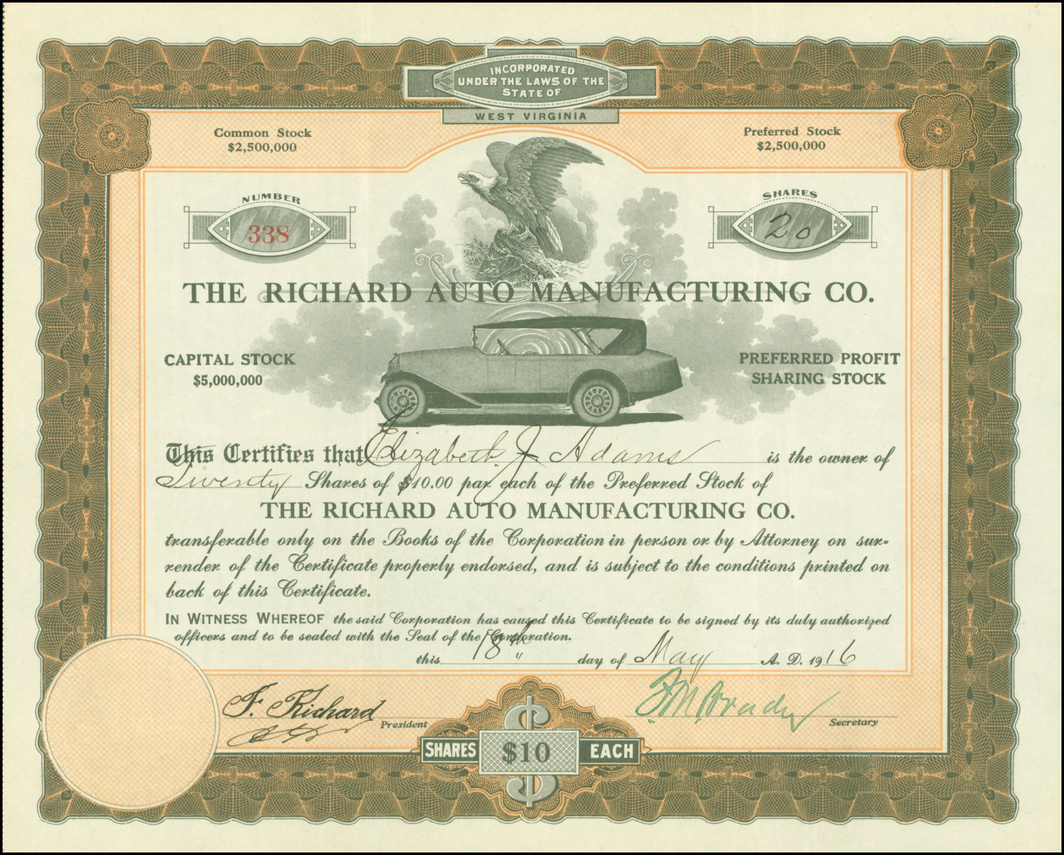 Share of the Richard Auto Manufacturing Co., issued 18. May 1916